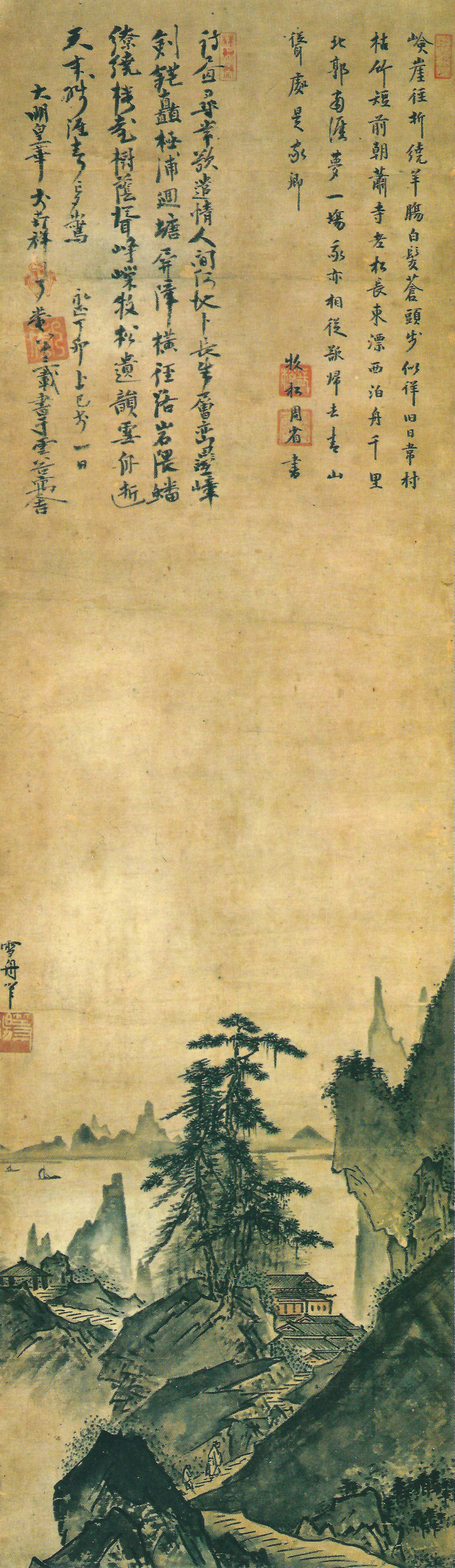 Landscape by Sesshu, private collection (Ohara), Kurashiki, Okayama, Japan